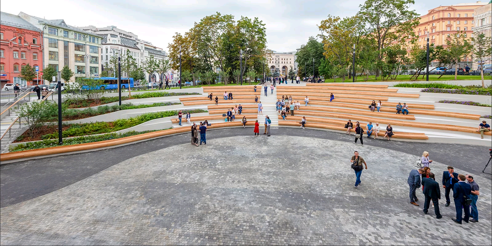 Amphitheater of the Polytechnical Museum